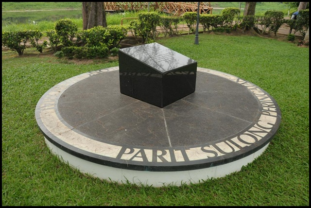 Tugu Peringatan Parit Sulong